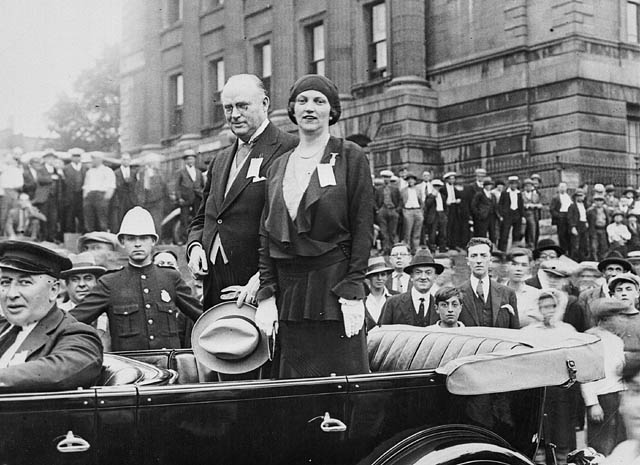 The Rt. Hon. R.B. Bennett, and his sister